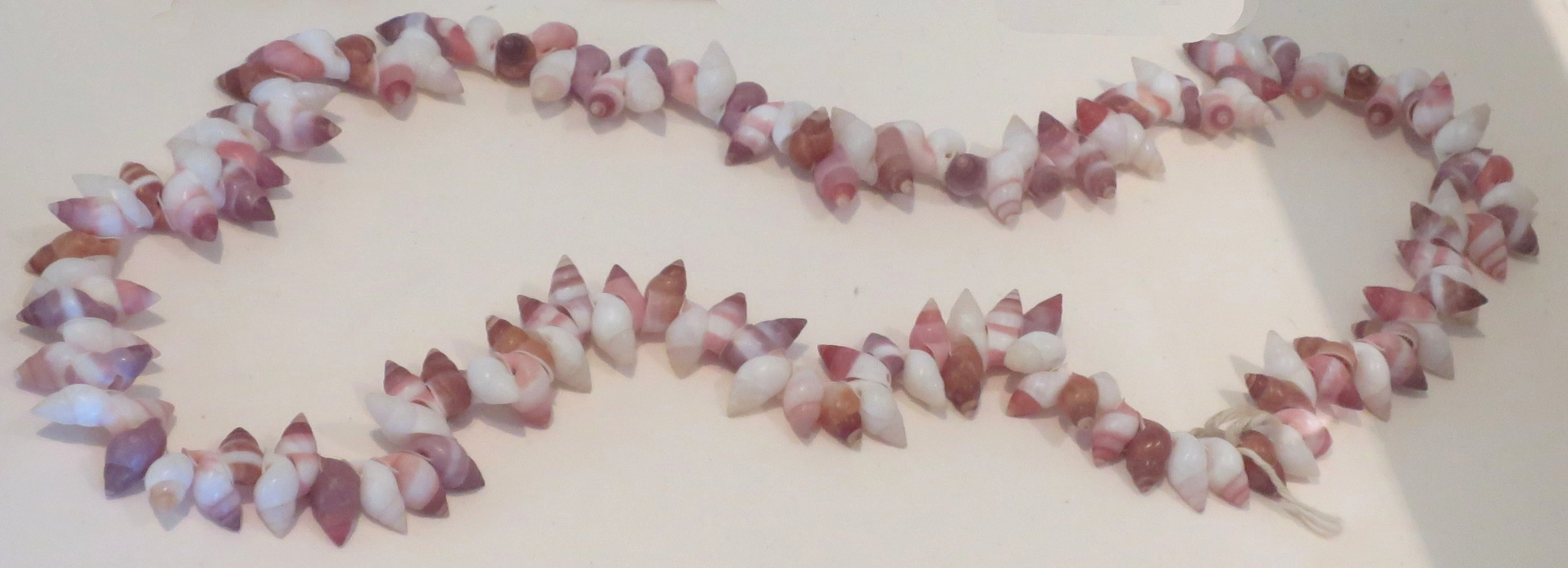 Lei pupu kuhahiwi (Hawaiian land snail shells), Bailey House Museum